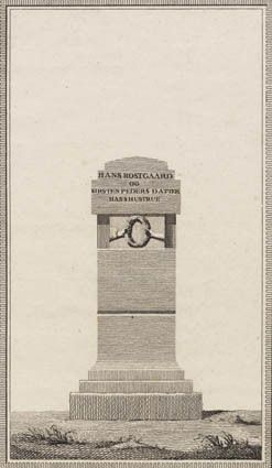 Stik af J.F. Clemens (1748-1831); Johannes Wiedewelts mindestøtte for Hans Rostgaard og hans hustru, 1779-1781. Mindeparken i Jægerspris.